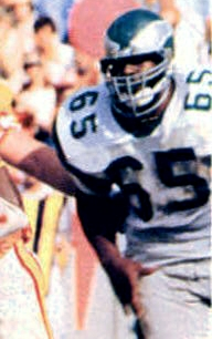 Philadelphia Eagles defensive tackle Charlie Johnson pictured in a defensive play against the Tampa Bay Buccaneers during the 1979 NFC Divisional Playoff Game on December 29, 1979.